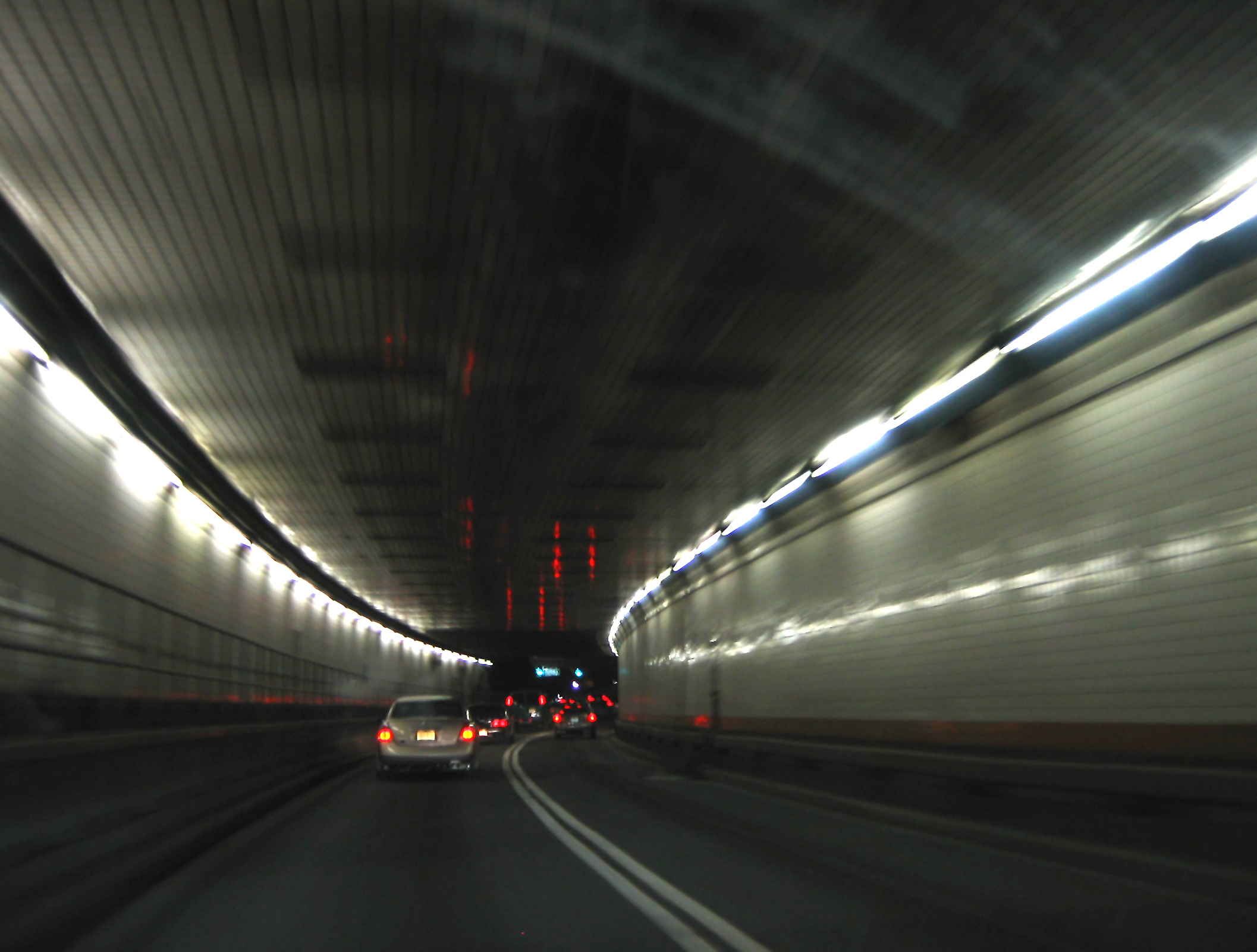 Traveling through the Holland Tunnel, from Manhattan to New Jersey.